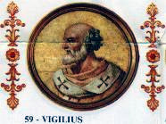 Pope Vigilius